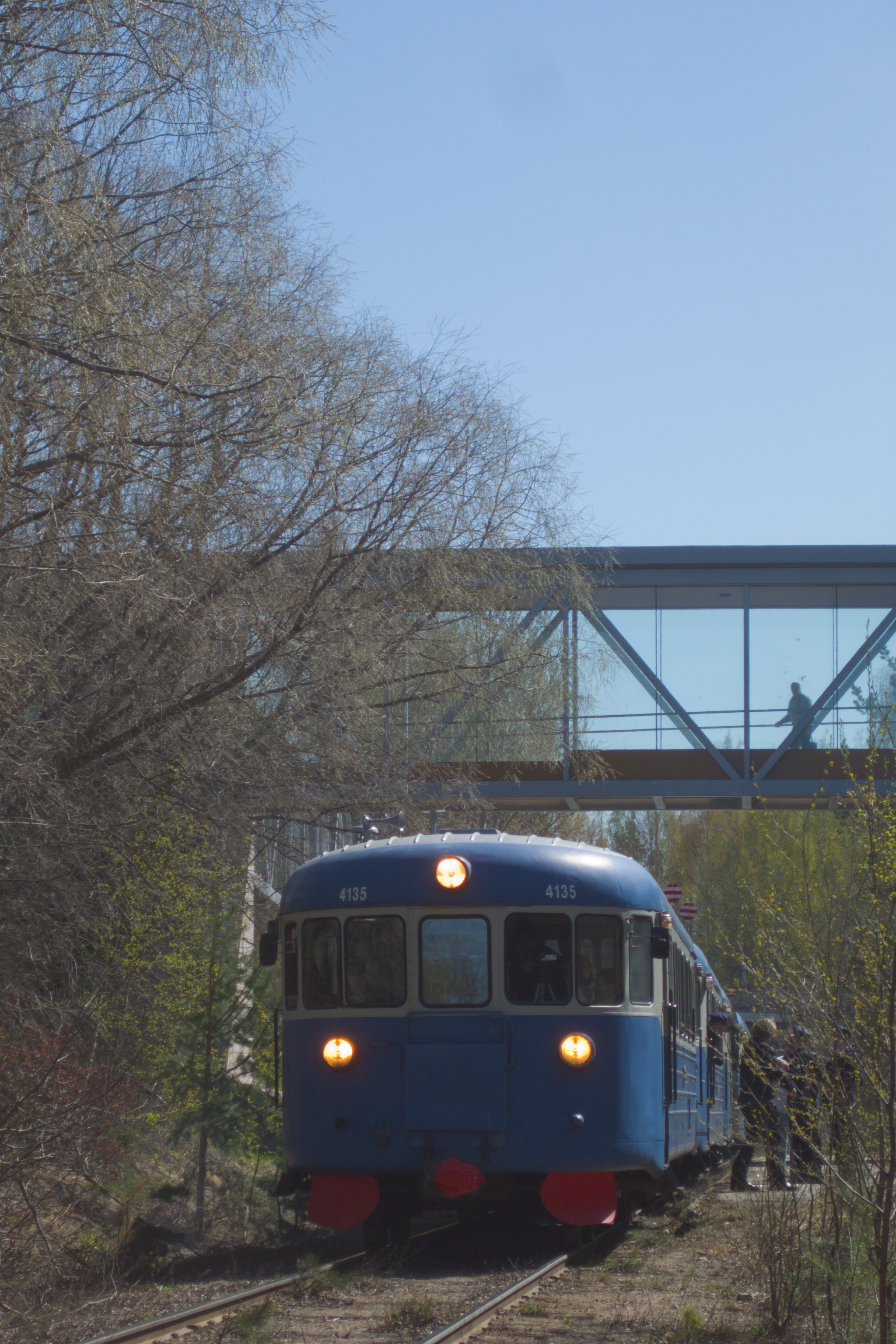 A museum train consisting of Dm7 DMUs has stopped at Äänekoski.